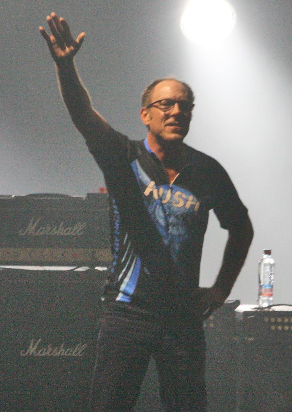 David Lovering from Pixies at Teatro La Cúpula.